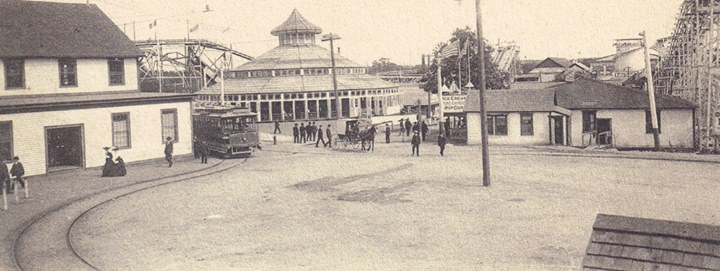 This is a view across Bullock's Point Avenue, around 1905, looking at the beginning of the midway with the 1895 Looff Carousel on the left, a scenic railway behind the carousel and Looff's Toboggan Race on the right. In the background is the Alhambra Ballroom, the Bamboo Slide and the Shoot-the-Chutes.